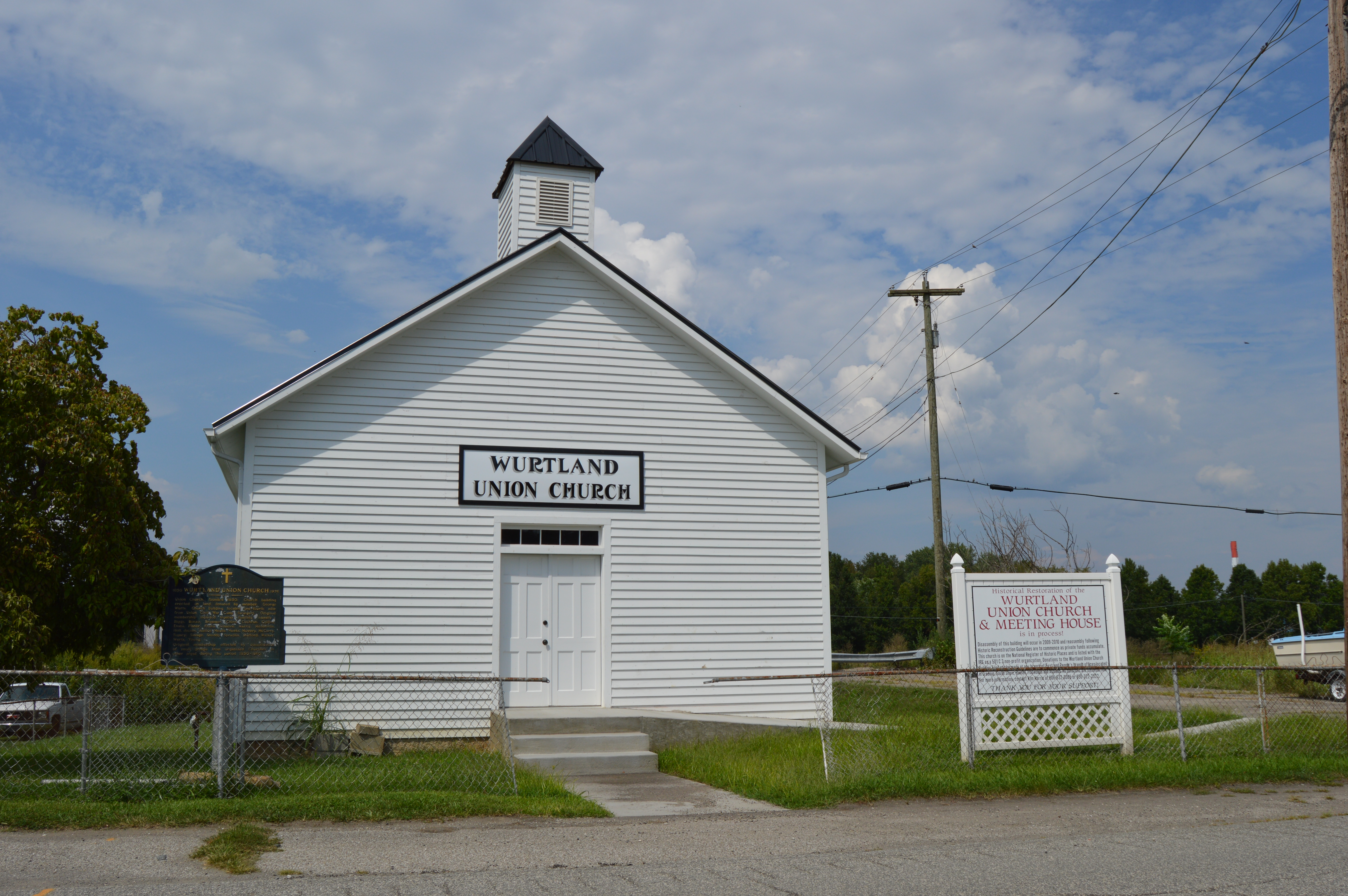 Front of the Wurtland Union Church, located at 325 Wurtland Avenue (Kentucky Route 67) in Wurtland, Kentucky, United States. Built in 1921, it is listed on the National Register of Historic Places.